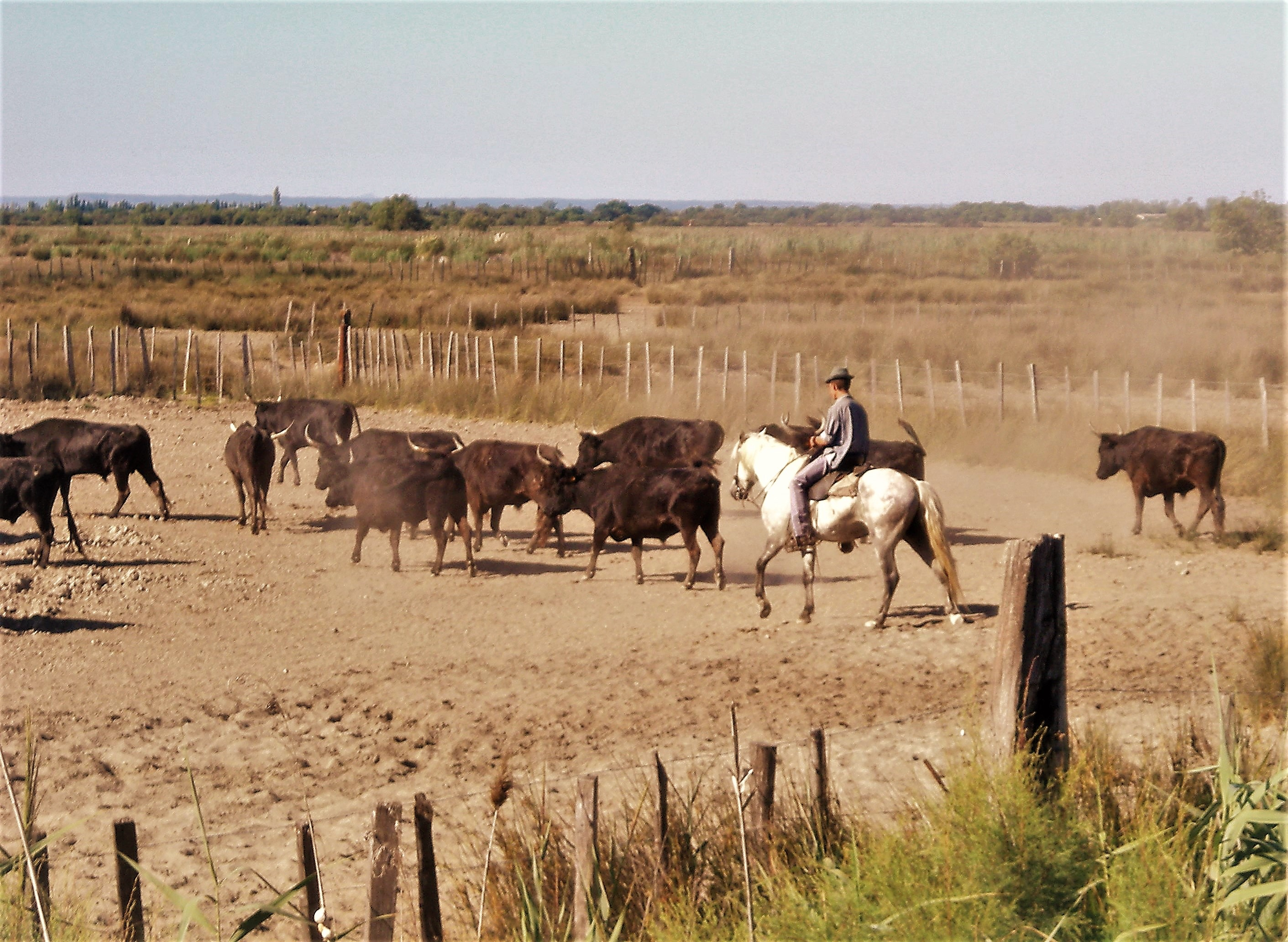 'Gardian' in Camargue, Provence, France